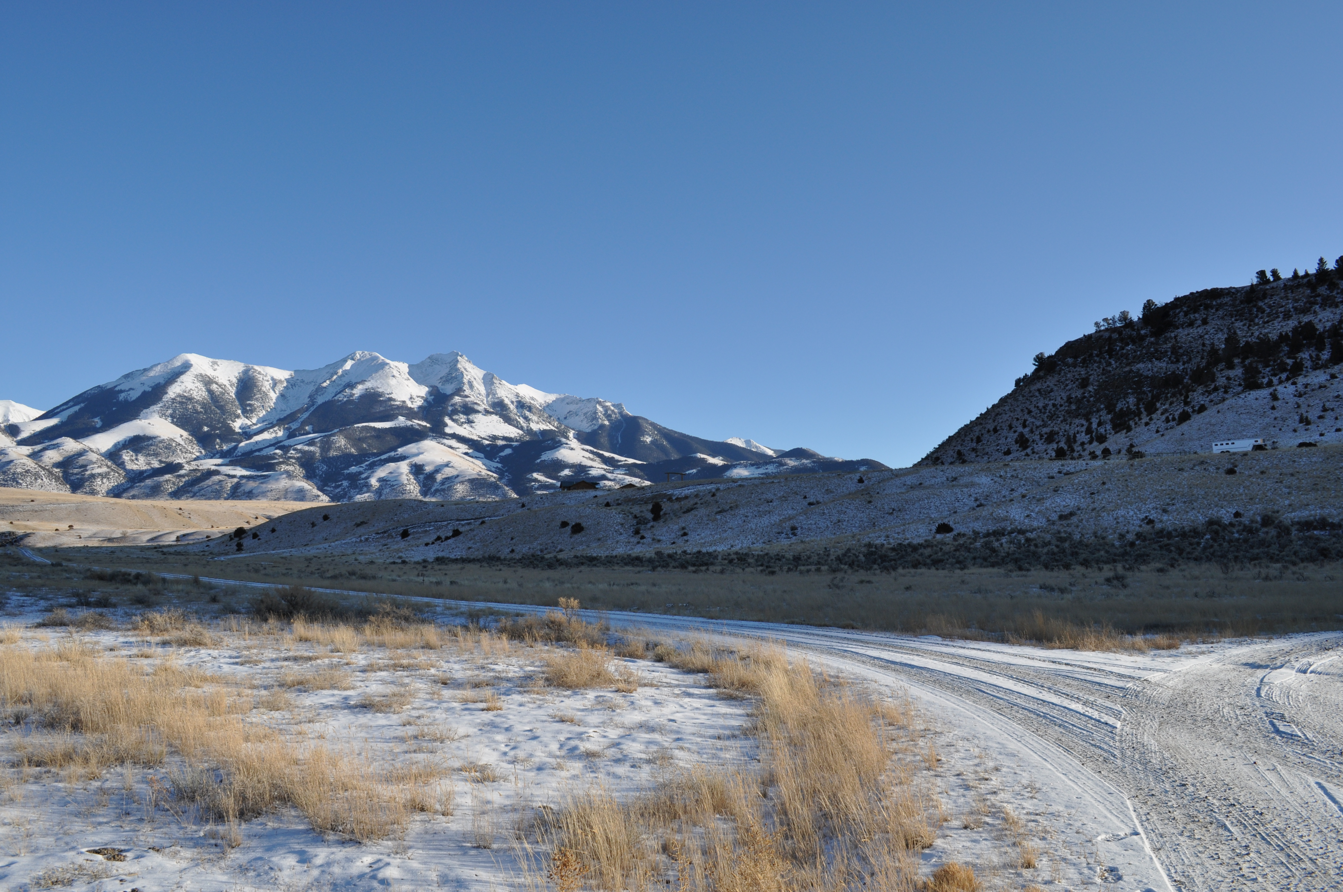 Emigrant Peak from East River Rd, Paradise Valley, Montana, December 2009